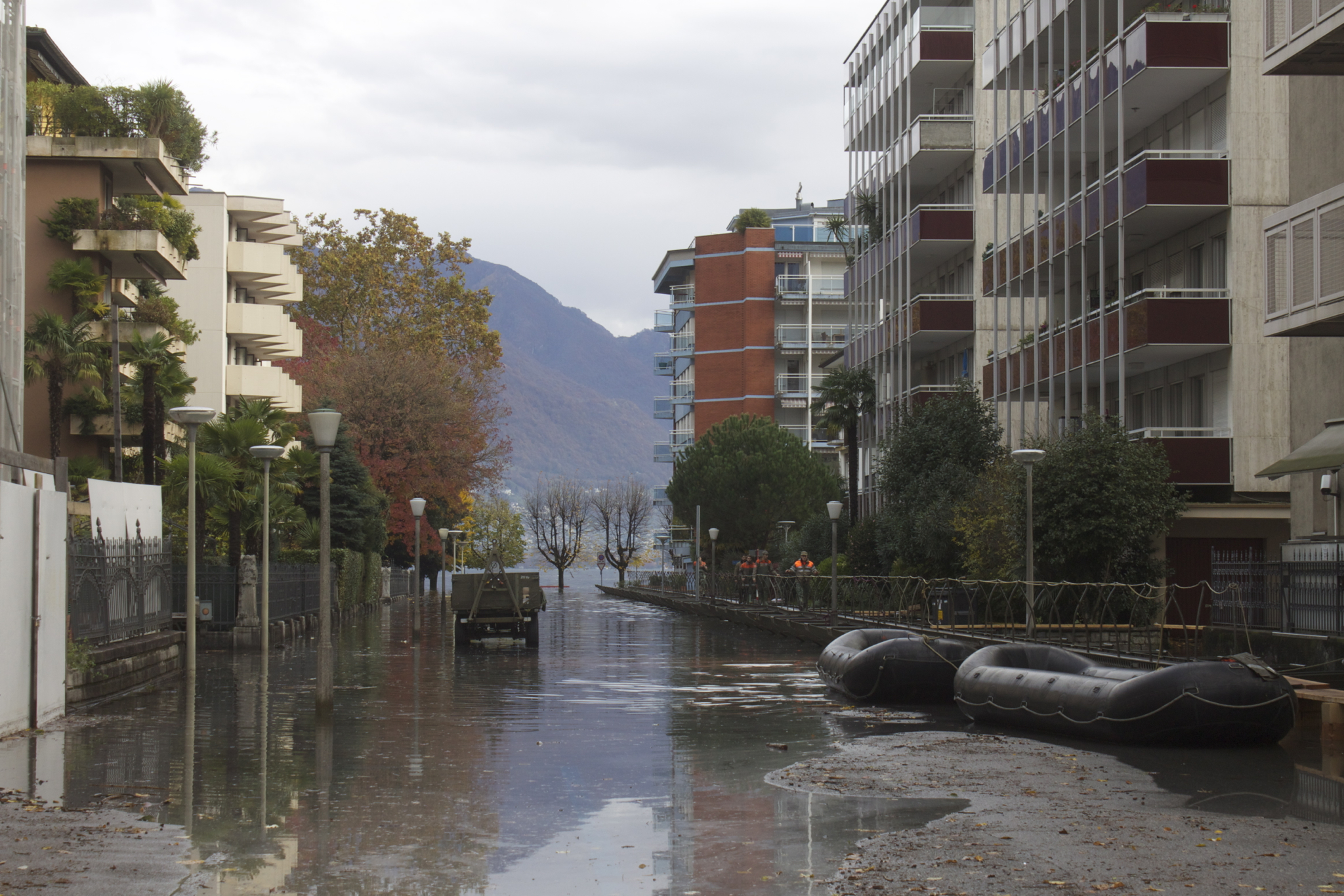 Via Bramantino, Locarno, flooded by Lake Maggiore.